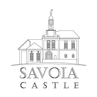 The official logo of the Savoia Castle in Škvorec, Czech Republic